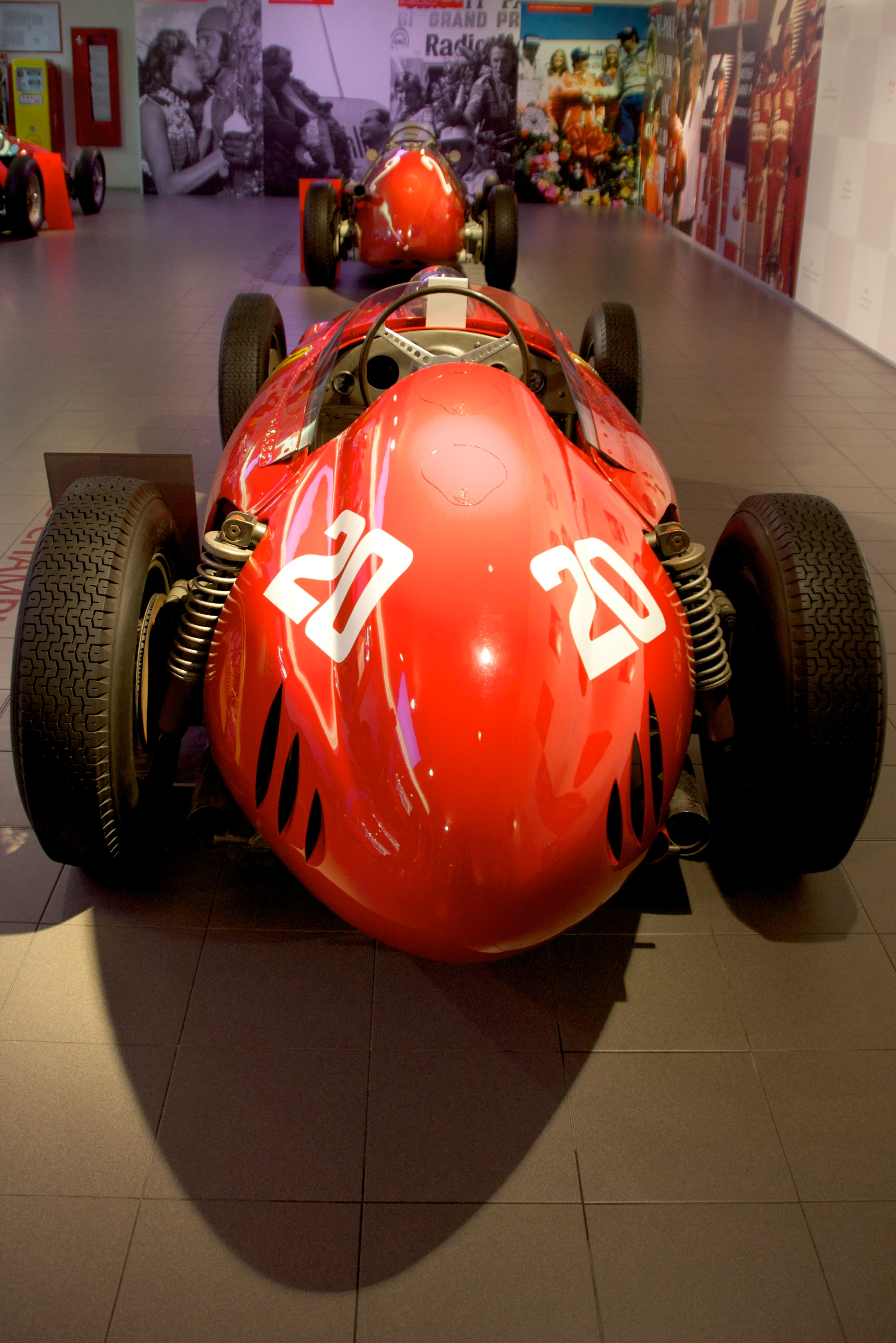 Tested in October 1957 by Peter Collins at the Modena Autodrome, this car’s engine, which was derived from the Dino V6, offered a nicely balance between a 4-cylinder and the 8-cylinder designed by Vittorio Jano. Soon-to-be world champion Mike Hawthorn won the French Grand Prix in the 246 F1 while Peter Collins delivered victory in the British Grand Prix.